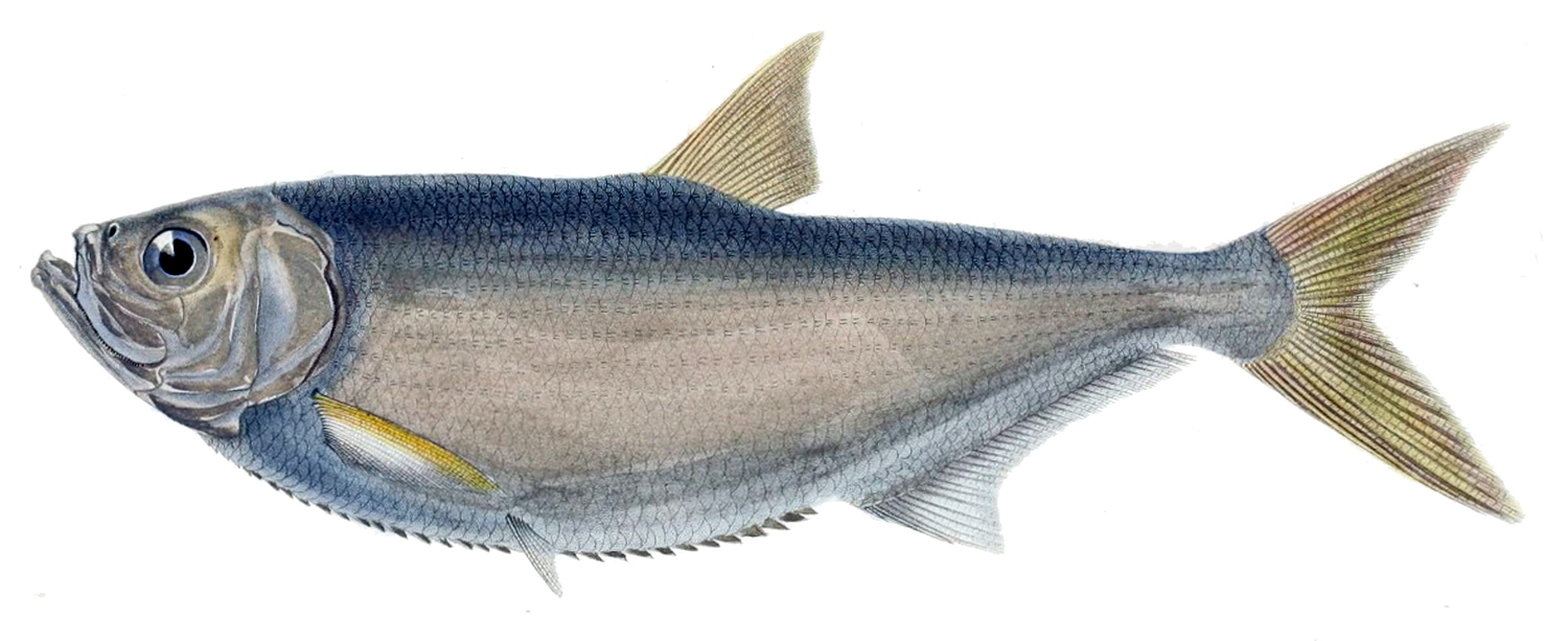 « Pristigaster flavipinnis » = Pellona flavipinnis (Yellowfin river pellona)